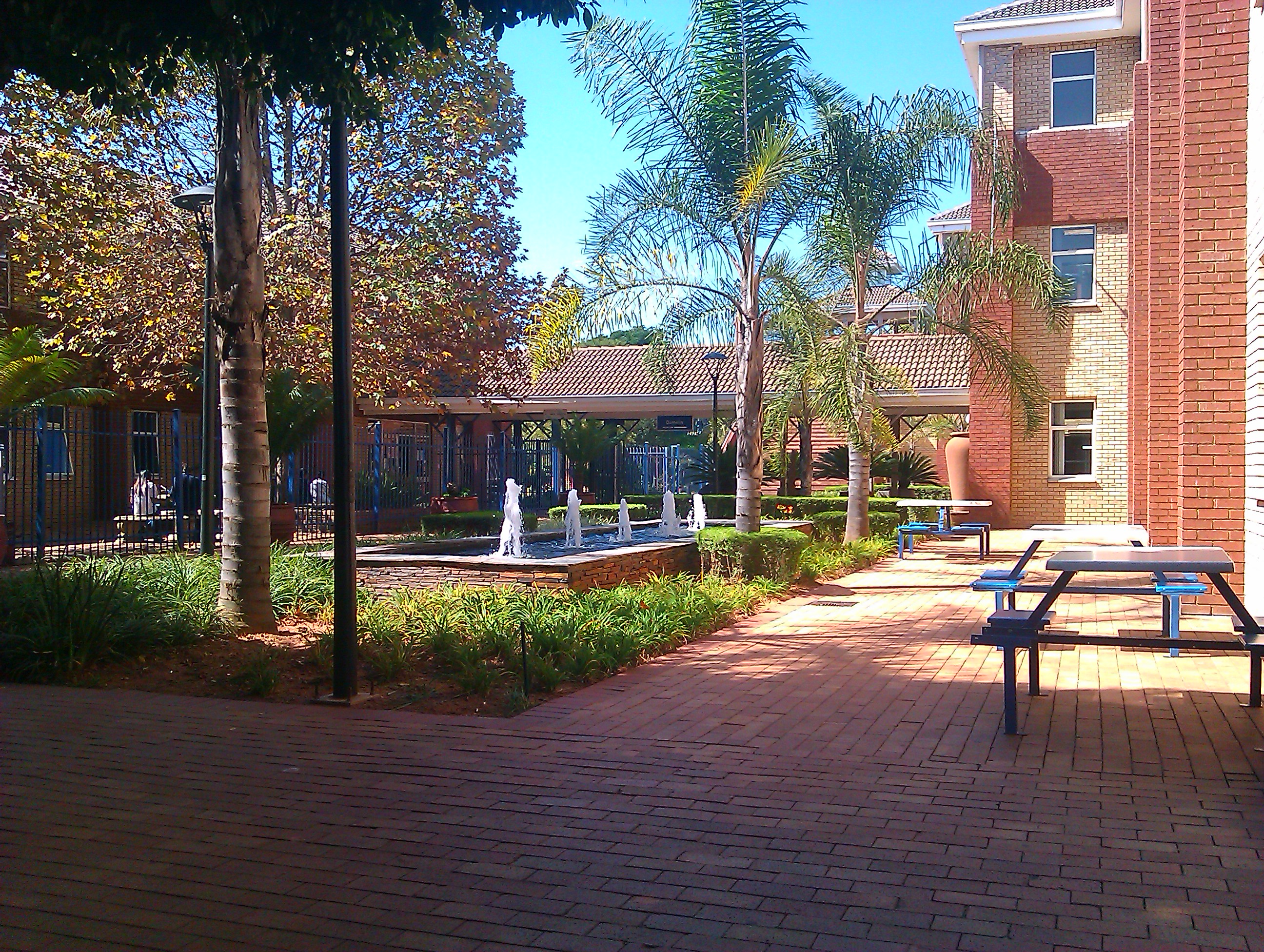 The entrance of Damelin, Randburg with the main building on the right.